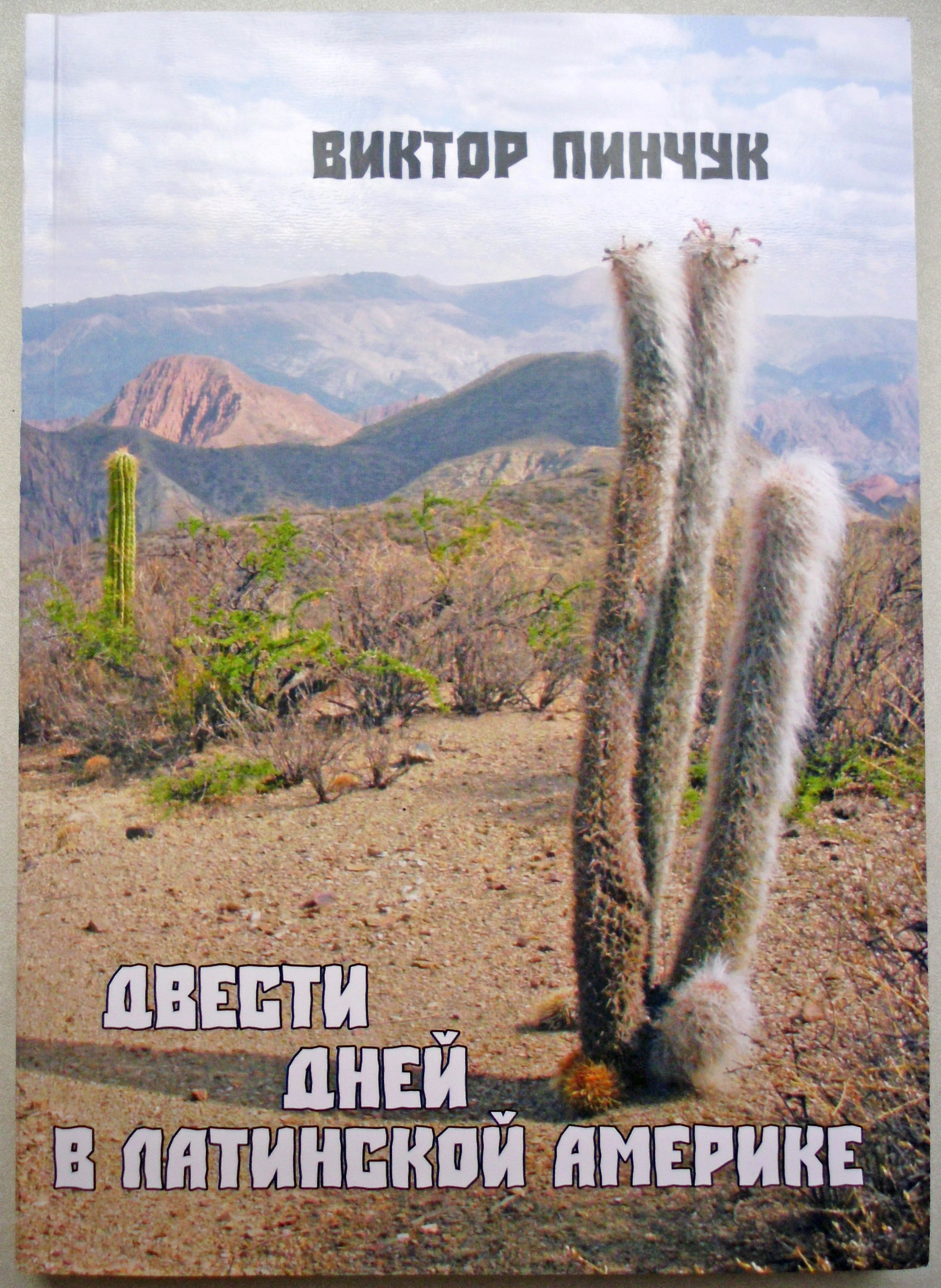 Cover of the book Pinchuk V.V. "Two hundred days in Latin America", ISBN 978-5-9909912-0-0